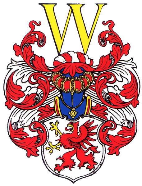 Coat of Arms of Ueckermünde